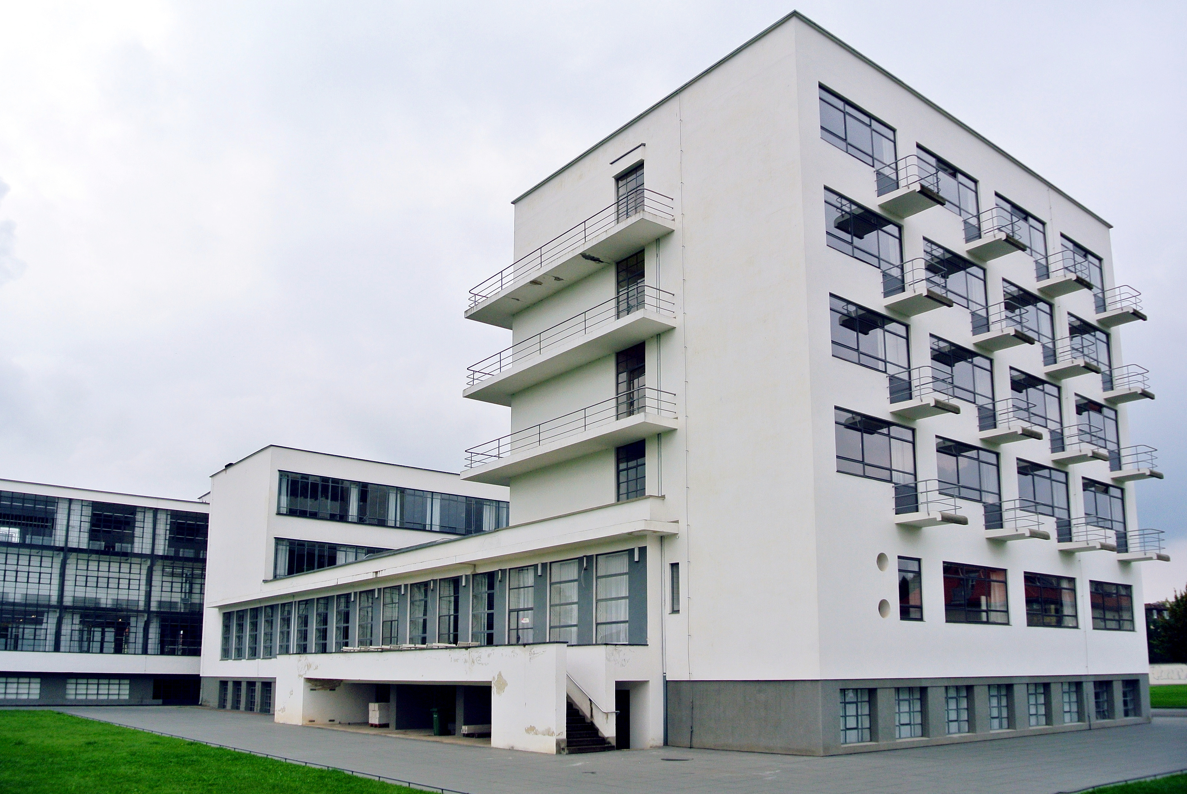 Dessau-Bauhaus